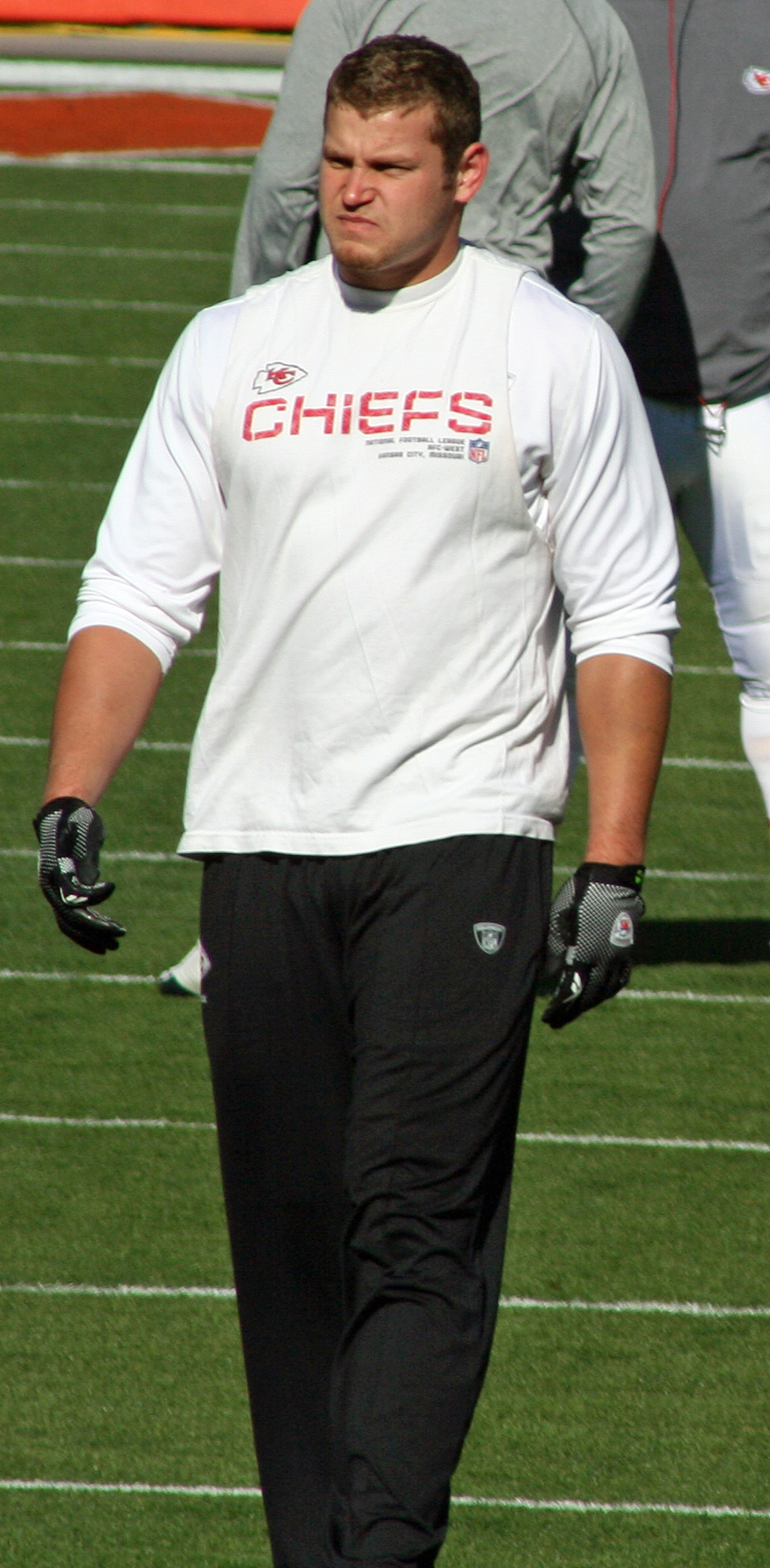 Jake O'Connell, a player on the Kansas City Chiefs American Football Team.